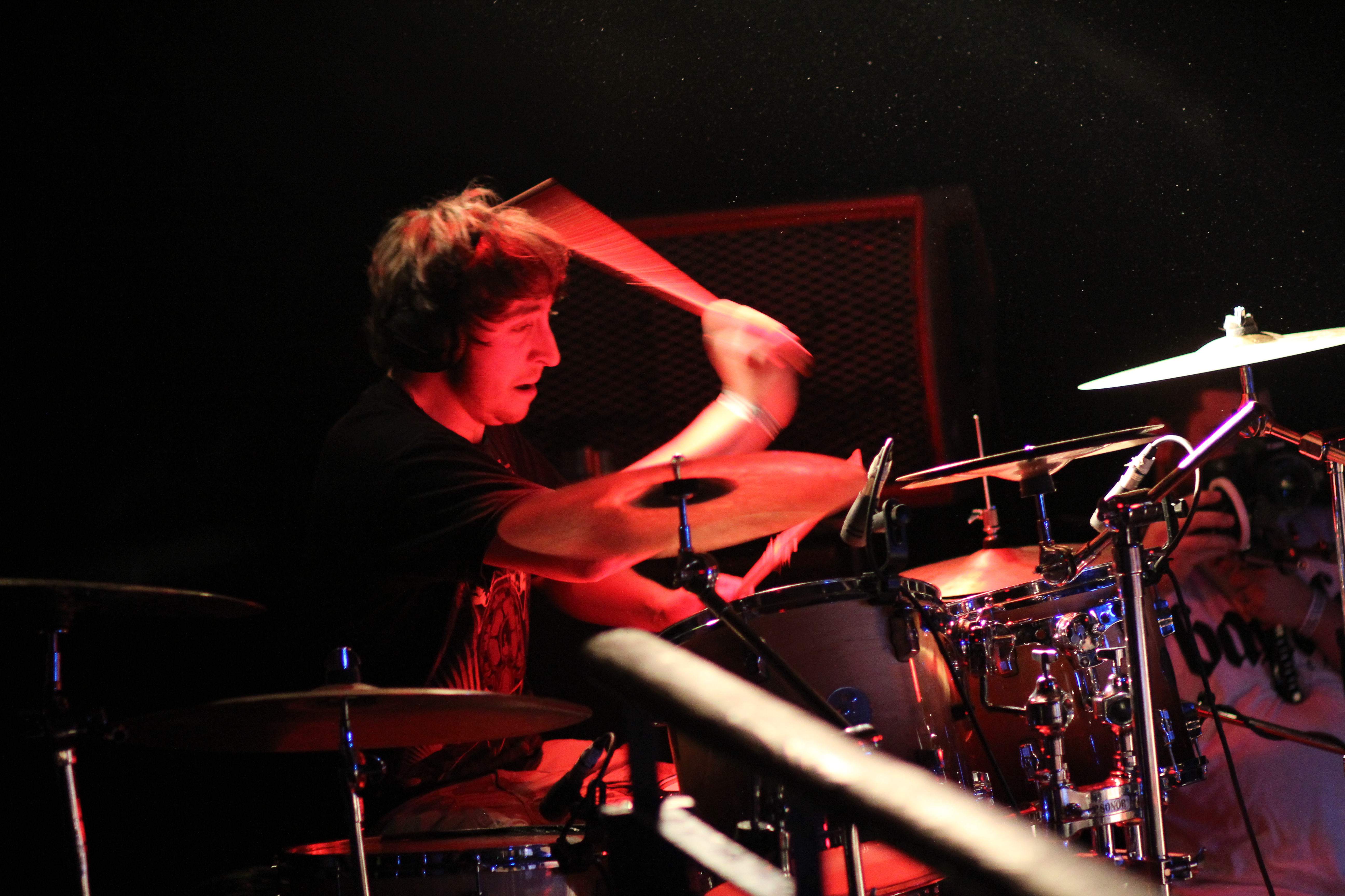 The Algorithm live at The Underworld, Camden, London, UK.